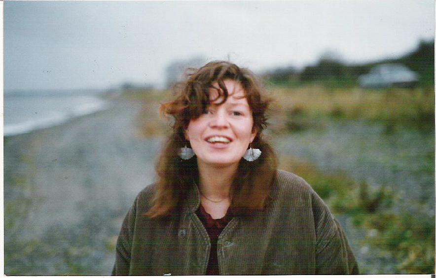 Eithne, taken by her husband Gerry O'Connor Image copyright Gerry O'Connor Permission to use in license above Source at link above in CC field